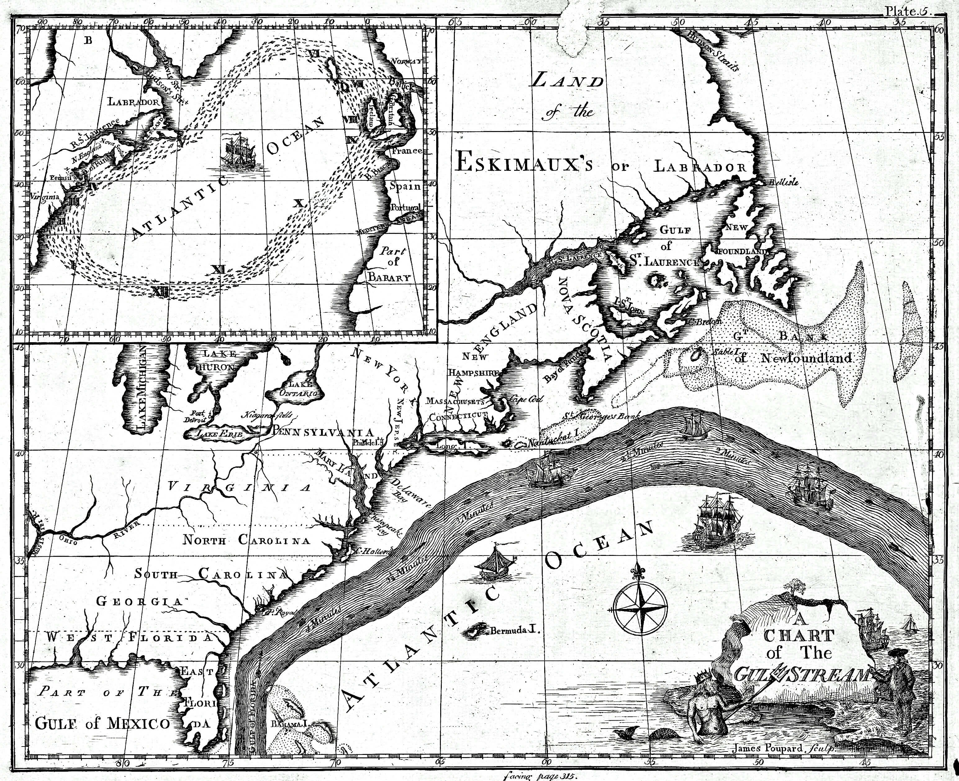 Earliest known map of the Gulf Stream